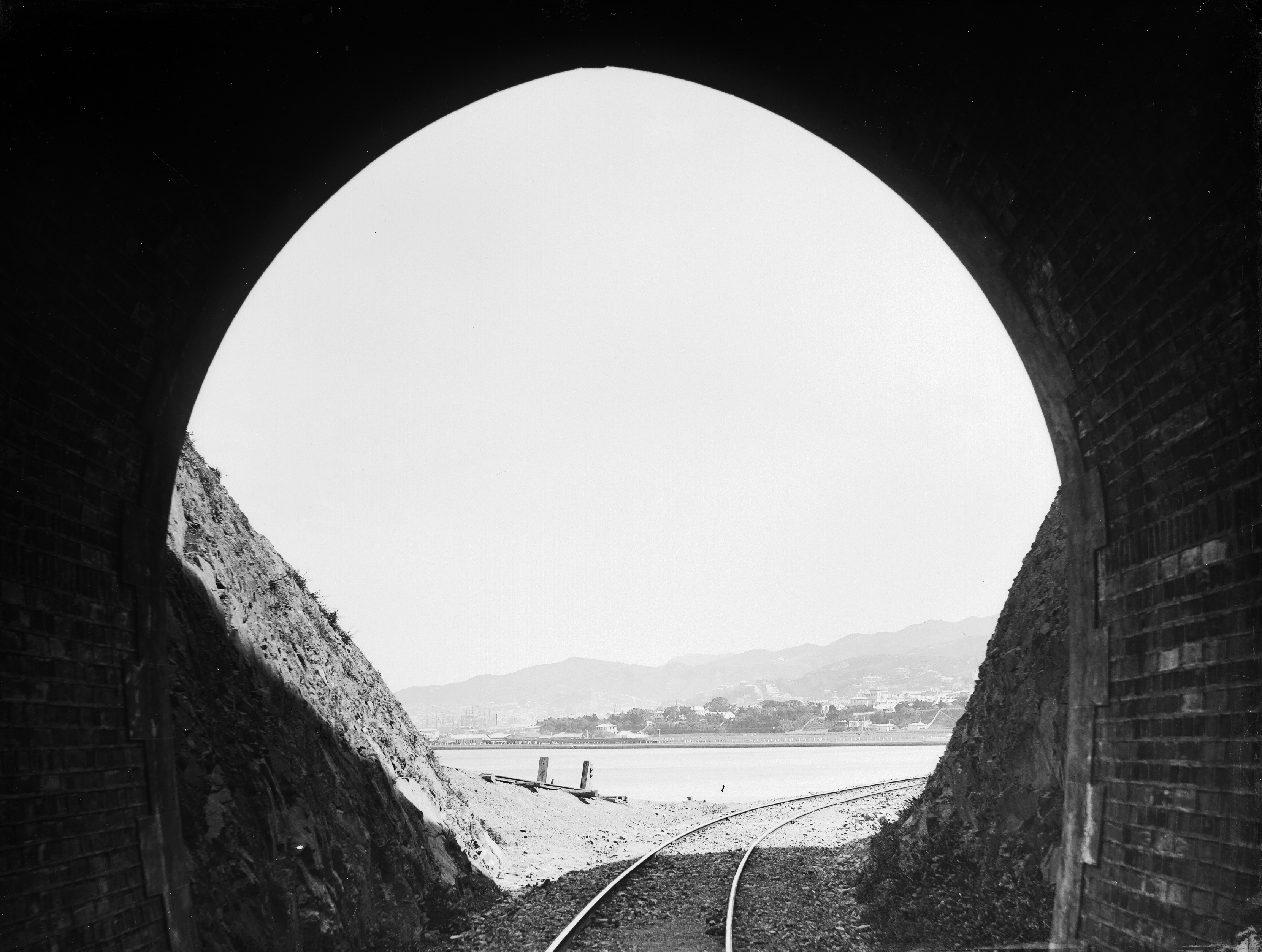 Photographer: William Williams (1859-1948) View of Thorndon, Wellington, from inside a railway tunnel in Kaiwharawhara, 1880s Original negative Reference No. 1/1-025761-G Photographic Archive, Alexander Turnbull Library, National Library of New Zealand from the